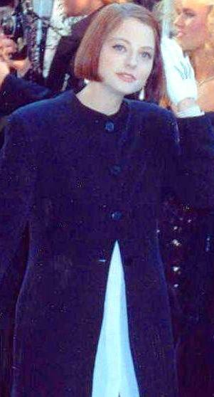 Photo taken at the 62nd Academy Awards 3/26/90 - Permission granted to copy, publish or post but please credit "photo by Alan Light" if you can